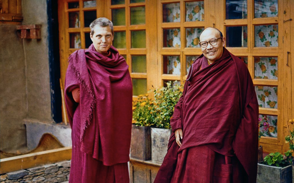 Zina Rachevsky and Trulshik Rinpoche at Thupten Chöling, Georges Luneau